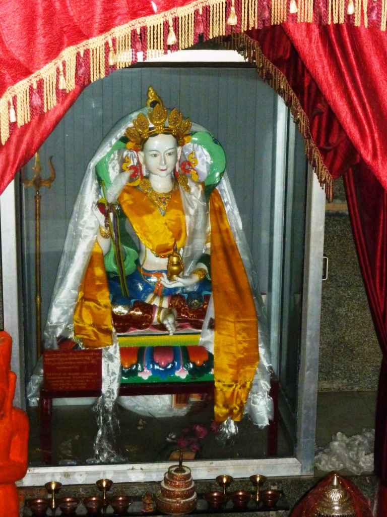 I took this photo when visiting Mandi earlier this year